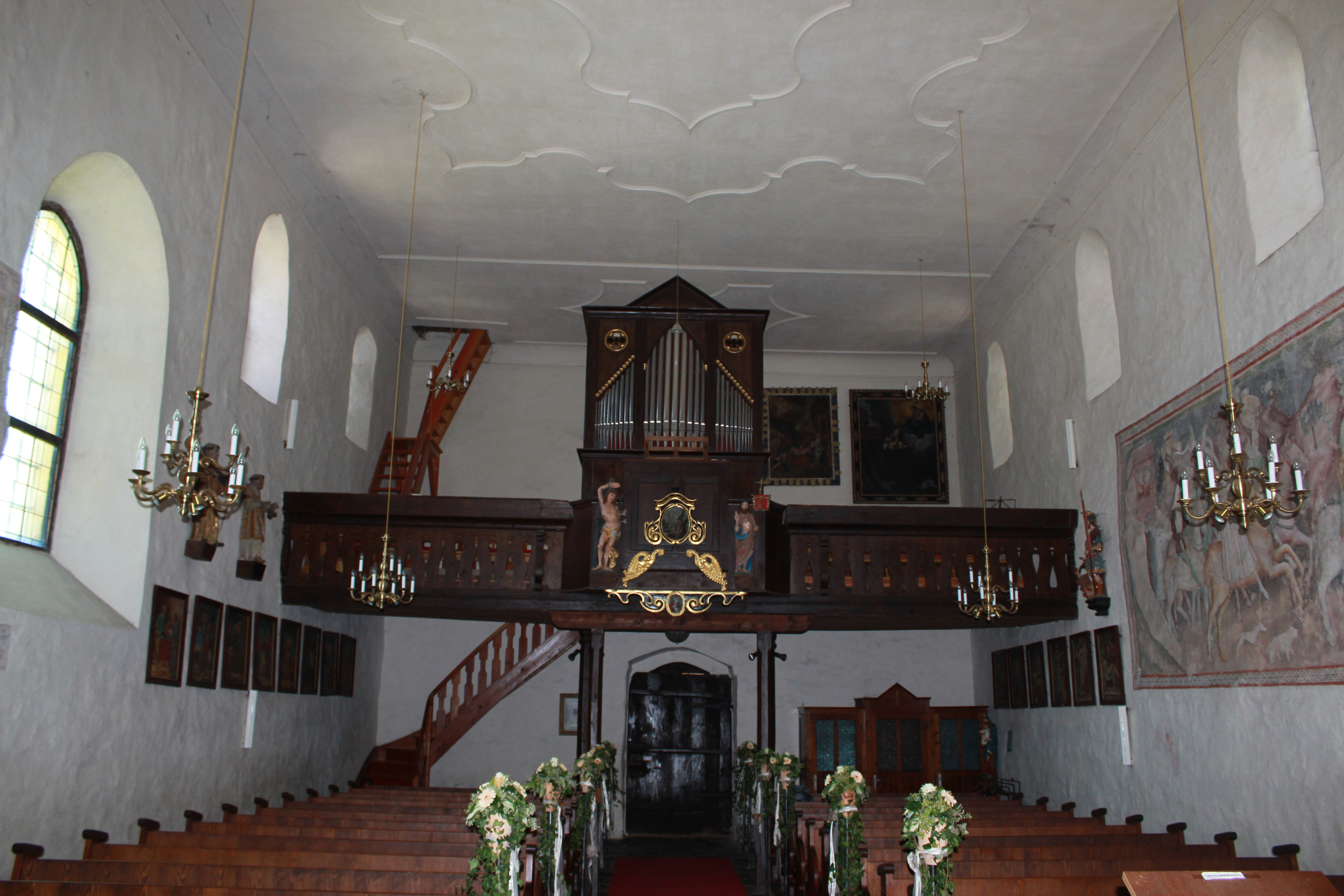 Parish church in Zweinitz in the community of Weitensfeld - View to the organ loft